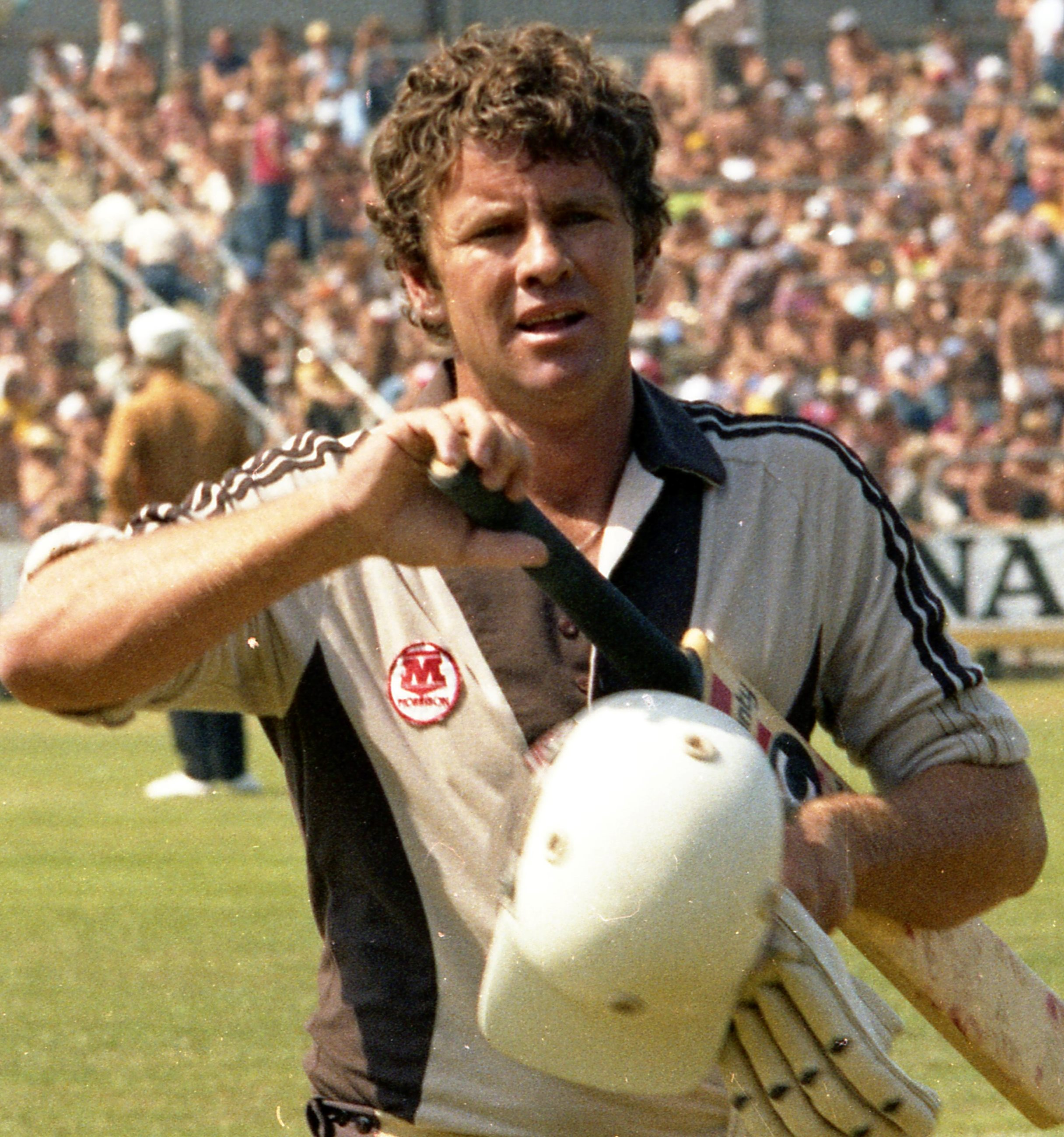 New Zealand cricketer Lance Cairns